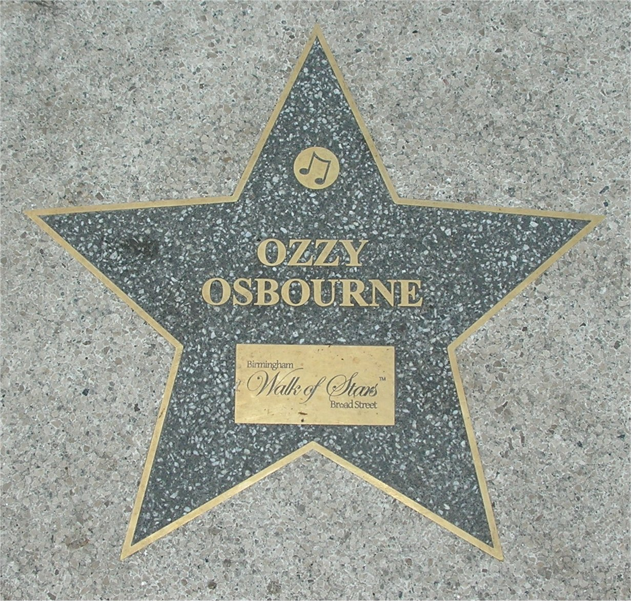 Star for Ozzy Osbourne on the Birmingham Walk of Stars on Broad Street, Birmingham, England. Set in the pavement over the Broad Street Tunnel (over the BCN Main Line Canal) in 2007. Photographed by me 8 November 2007. Oosoom